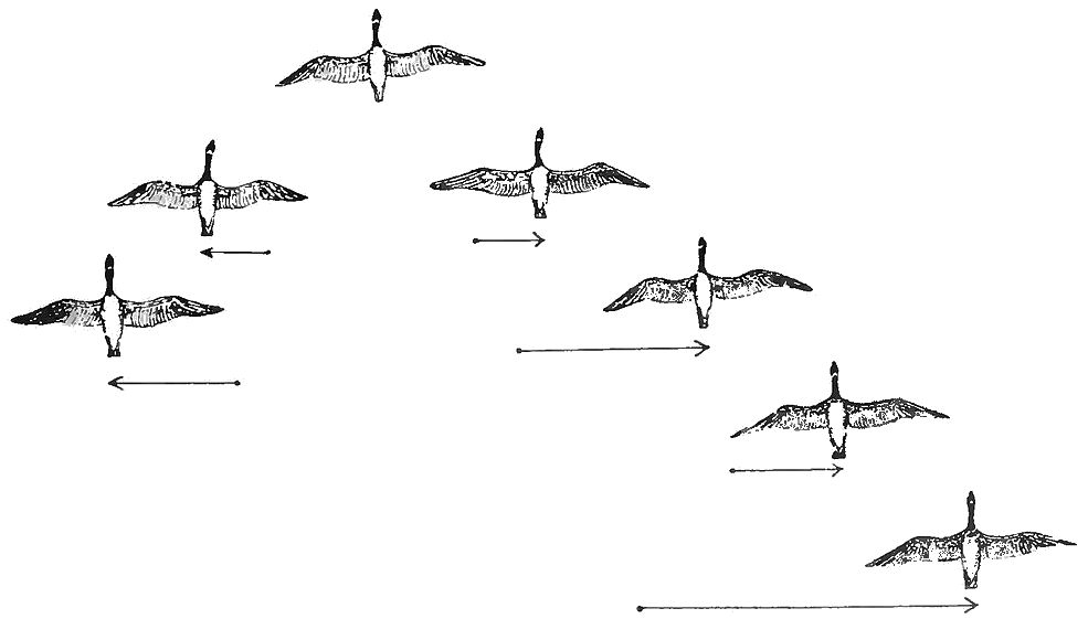 Echelon flock formation. The usual flight formation of large birds. All birds can see ahead, and towards one side, making the best arrangement for protection. The protective efficiency of the formation is little affected by an increase in the number of birds of the flock.